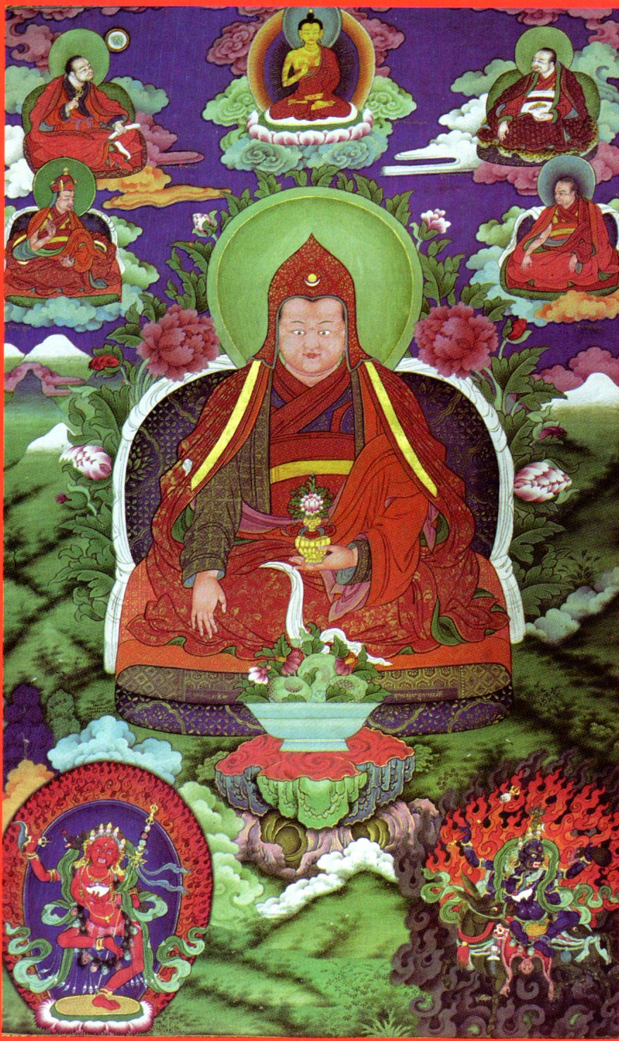 The First Peling Tukse, Dawa Gyeltsen b.1499 - d.1587